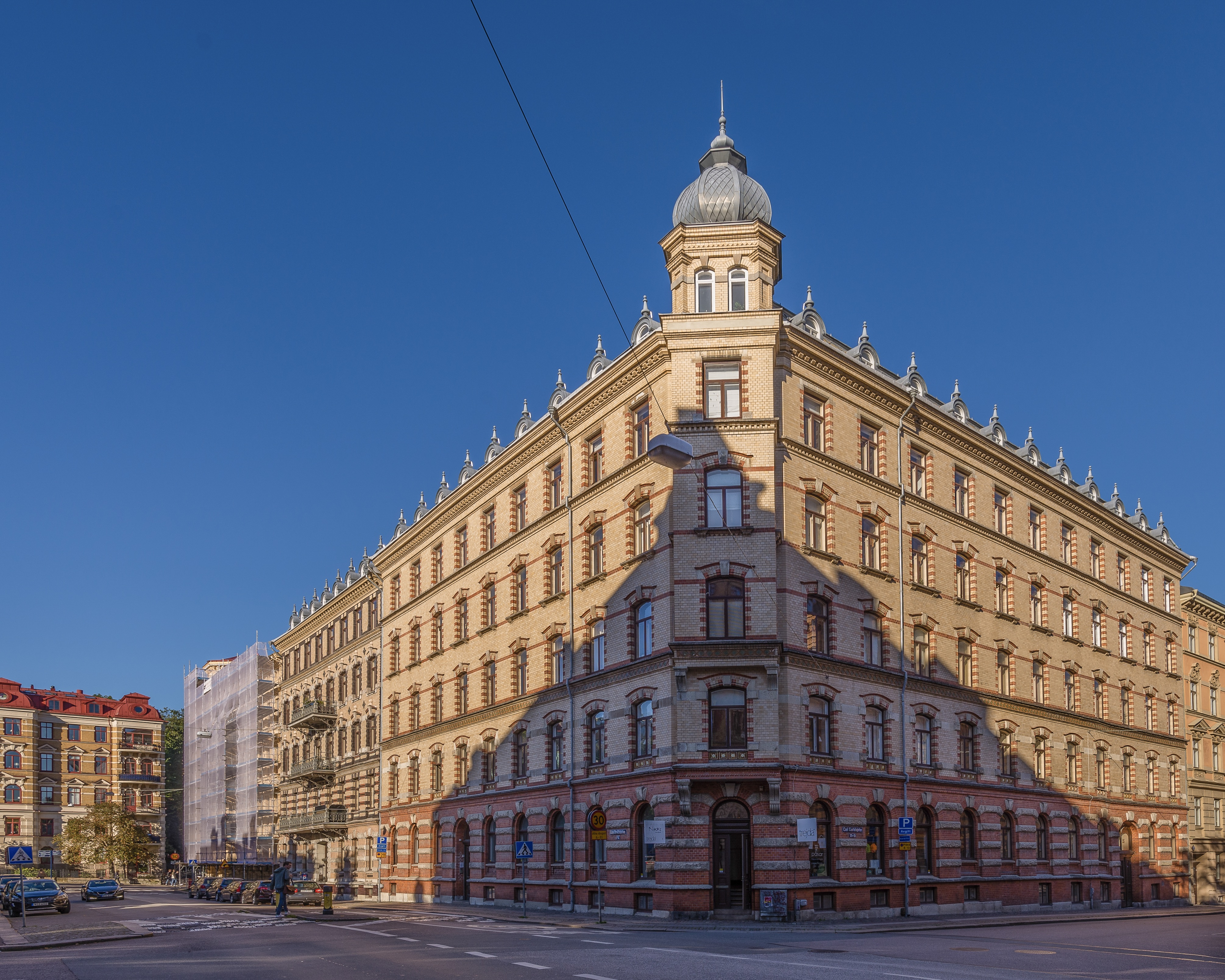 1890s residential buildings in Gothenburg, Sweden.